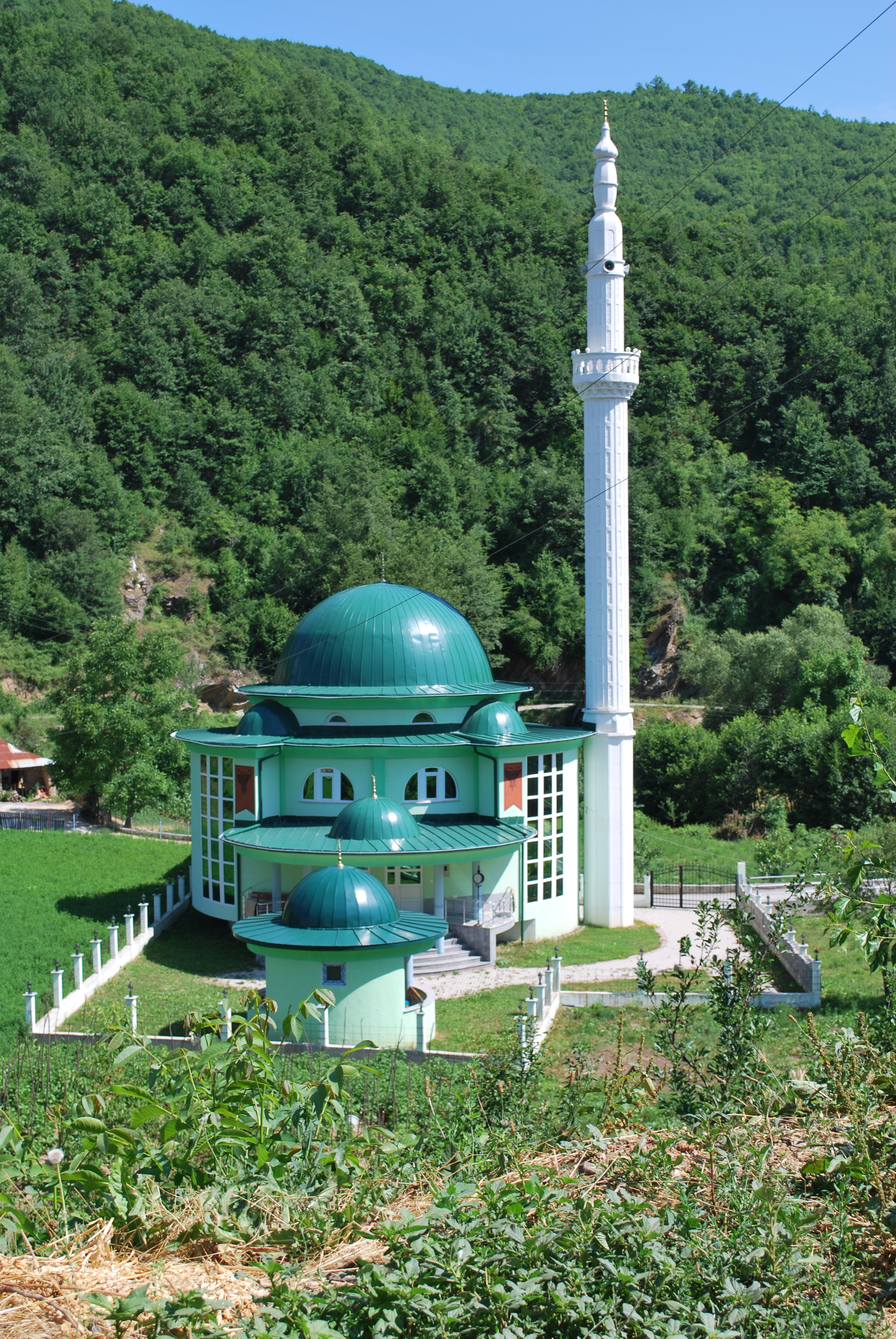 Srbinovo near Gostivar, Macedonia